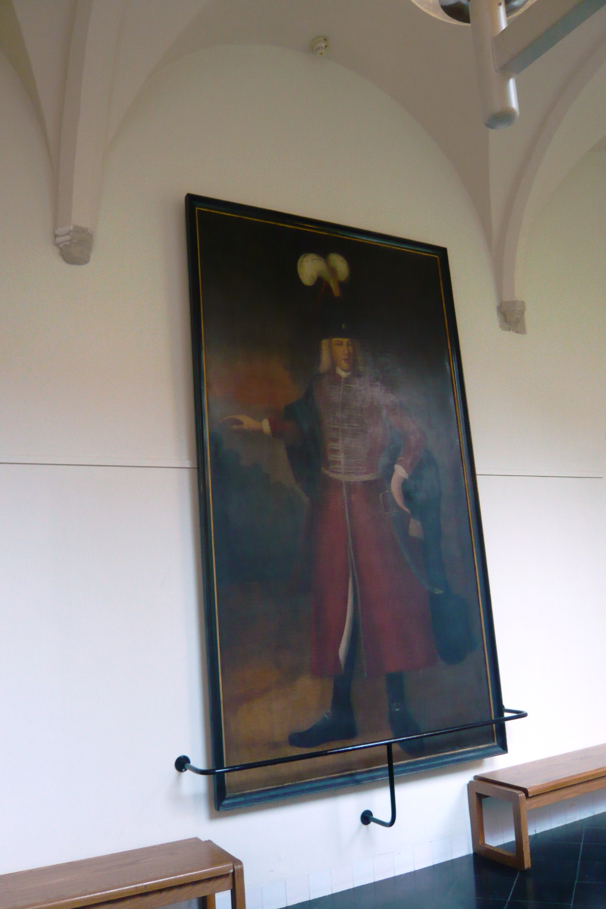 Life-size portrait of Daniel Cajanus (ca 1703-1749), the wonderful giant Swede who lived in the Amsterdam "Blauwe Jan" menagerie until retirement to the old age home "Proveniershuis" in Haarlem. Painted posthumously from Blauwe Jan poster in 1750 by B Brand. Hangs in Haarlem city hall in back cloisters.